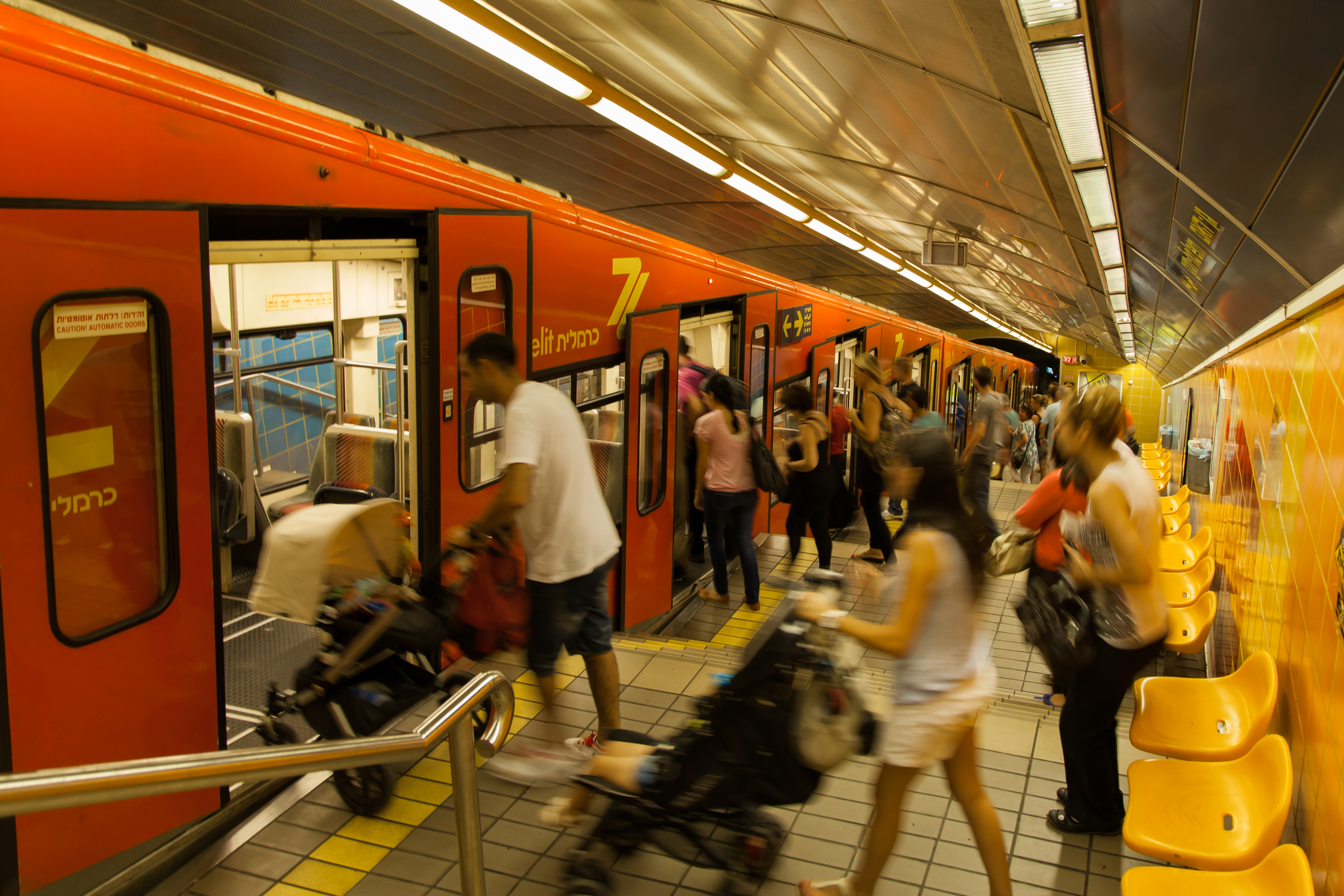 Haifa Israel - In the metro picture image photo